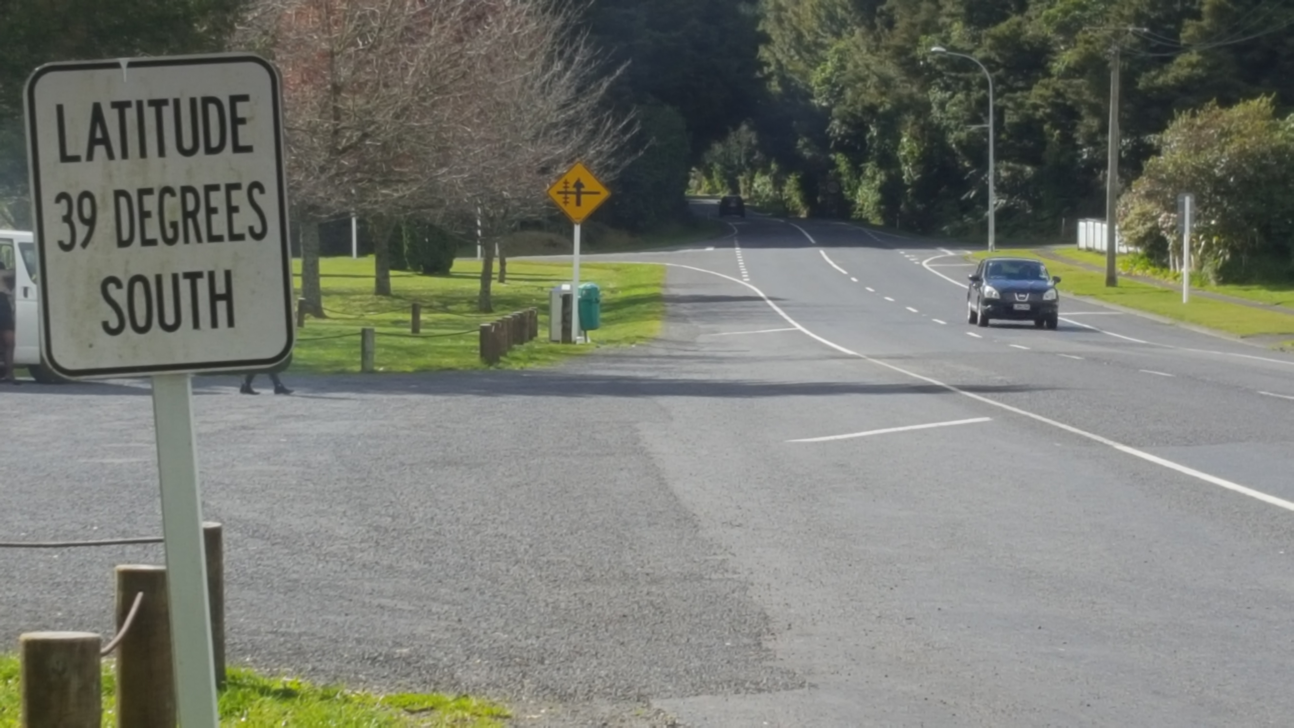 A view of the roadside sign in Owhango marking 39 degrees south (accurately placed to within about ten metres metres when using NZ Geodetic Datum 1949), looking north along State Highway 4.